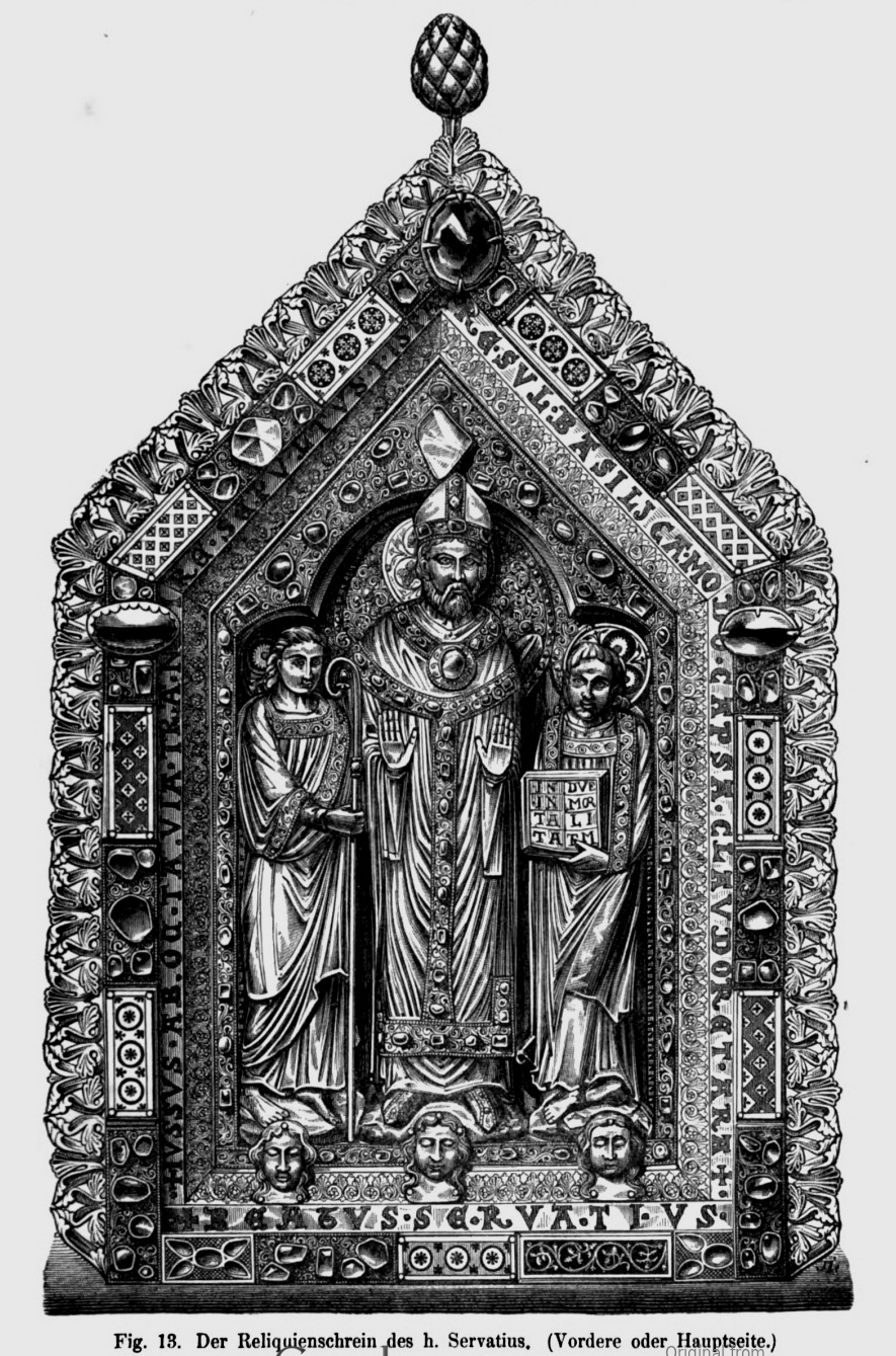 Woodcut illustration of the so-called Noodkist or reliquary chest of Saint Servatius (Mosan, 12th c.) in the Treasury of the Basilica of Saint Servatius in Maastricht, the Netherlands. One of 66 illustrations in Bock & Willemsen's 1872 publication on the church treasures of St. Servatius and Our Lady, both in Maastricht.